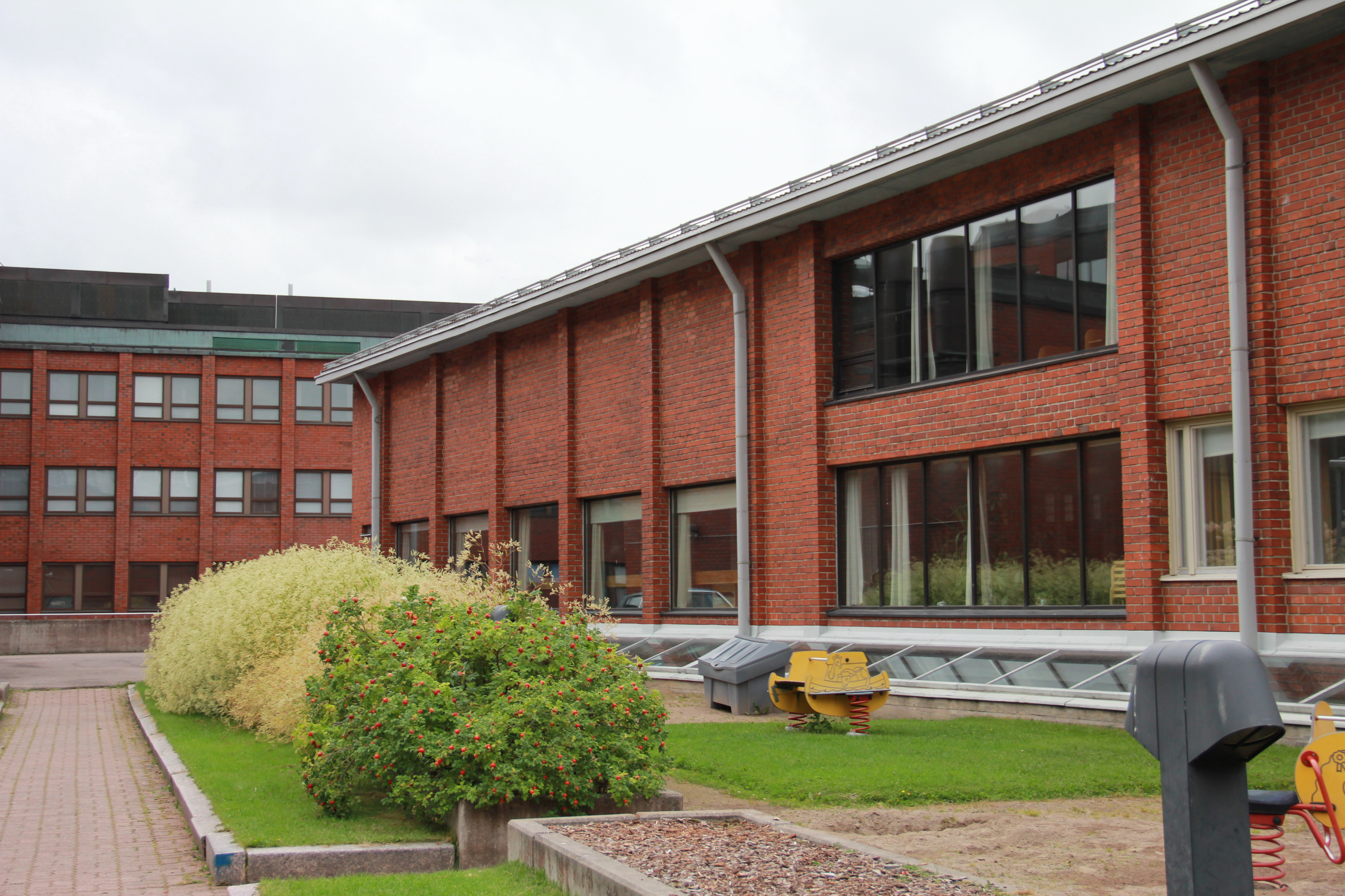 Tikkurila church, Vantaa Finland. Architects Leena and Kalle Niukkanen. Completed in 1956. Seen from inner yard.